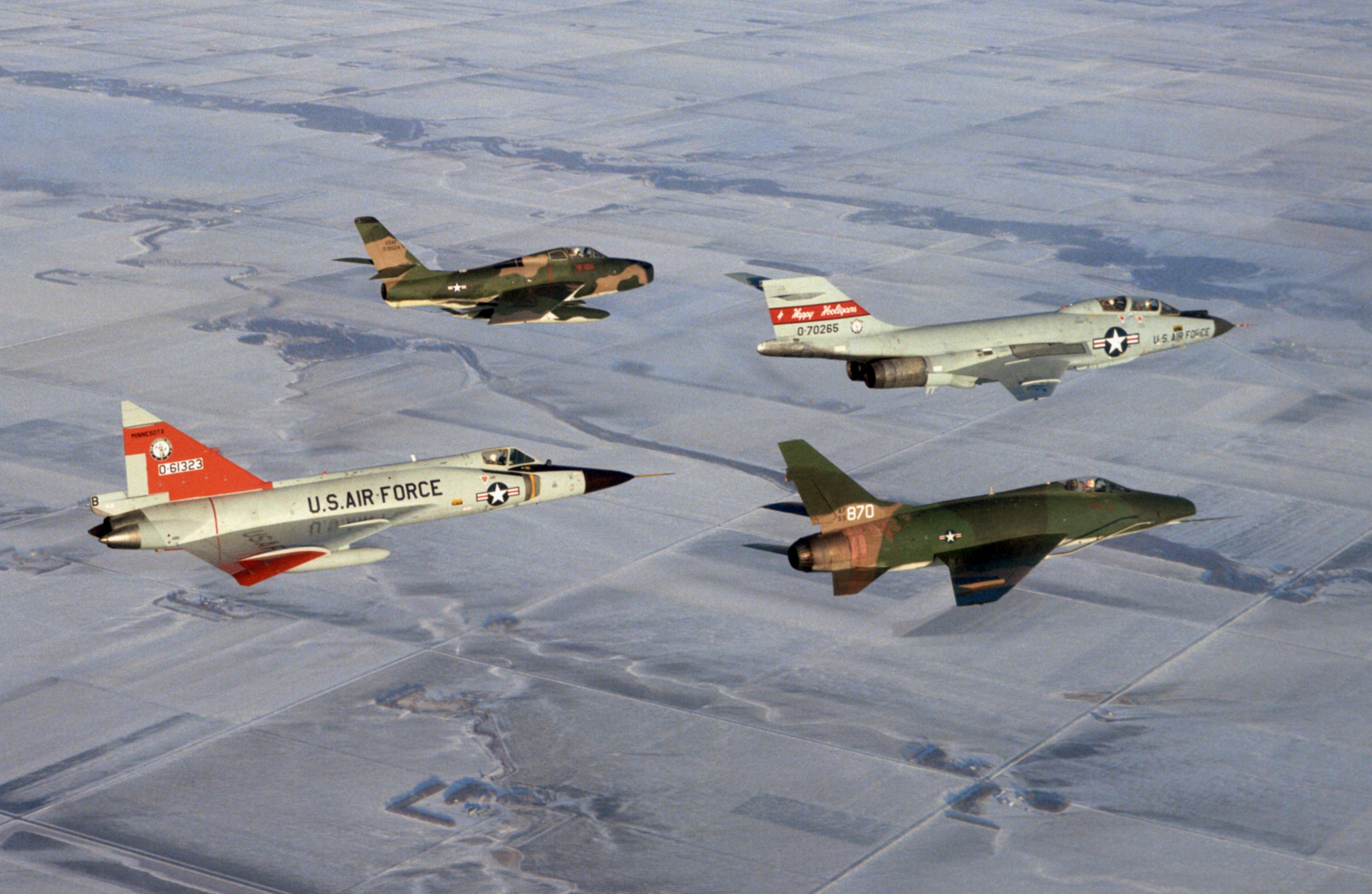 Four U.S. Air Force Air National Guard fighters in flight, circa 1970: (clockwise from the left): a Convair F-102A-75-CO Delta Dagger (s/n 56-1323) from the 179th Fighter Interceptor Squadron, 148th Fighter Interceptor Group, Minnesota Air National Guard; a Republic (General Motors built) F-84F-40-GK Thunderstreak (51-9524) from the 170th Tactical Fighter Squadron, 183d Tactical Fighter Group, Illinois Air National Guard; a McDonnell F-101B-85-MC Voodoo from the 178th Fighter Interceptor Squadron, 119th Fighter Wing, North Dakota Air National Guard; and a North American F-100D-50-NH Super Sabre (s/n 55-2870) from an unknown unit.